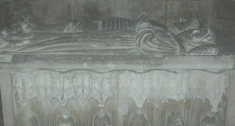 This picture shows count of Vaudemont Antoine's tomb in Cordeliers'Church at Nancy.